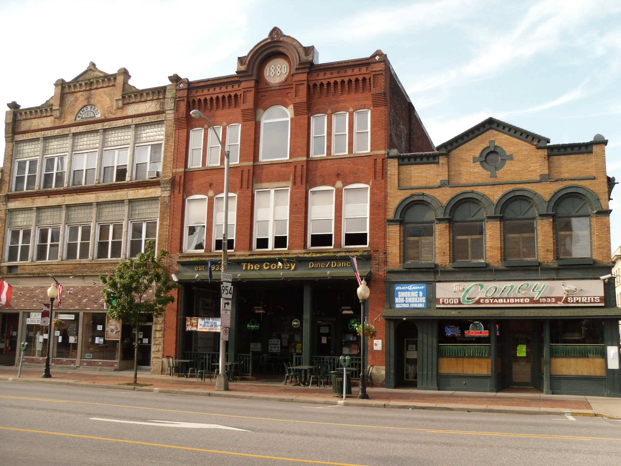 Indiana Historic District — in Indiana, Pennsylvania.